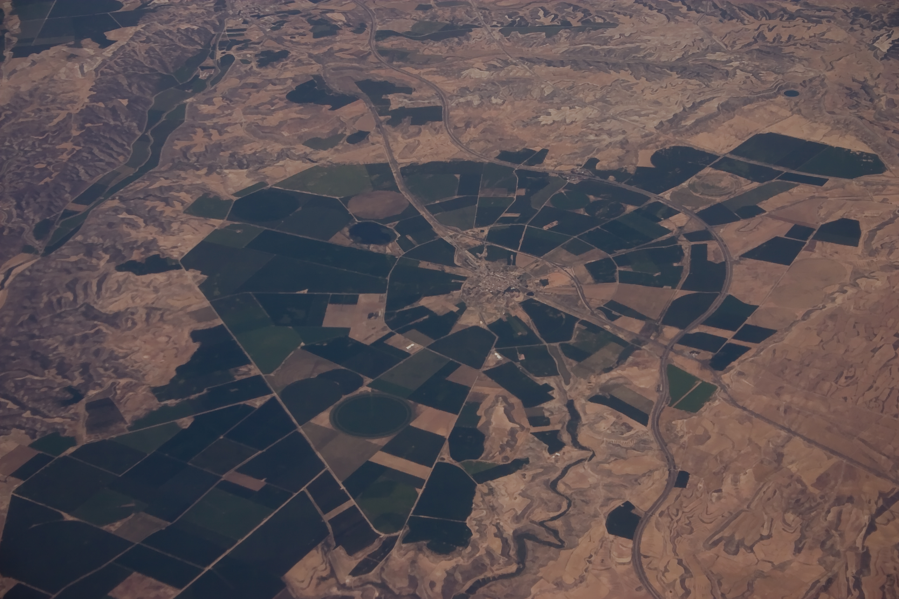 Aerial photogrpah of Candasnos, a municipality located in the province of Huesca, Aragon, Spain. The image was taken from a Boeing 737 on the EMA (East Midlands) to VLC (Valencia) flight path using a Canon 300D - ISO 100, 55mm (18-55mm), F/8 and 1/1000 sec.